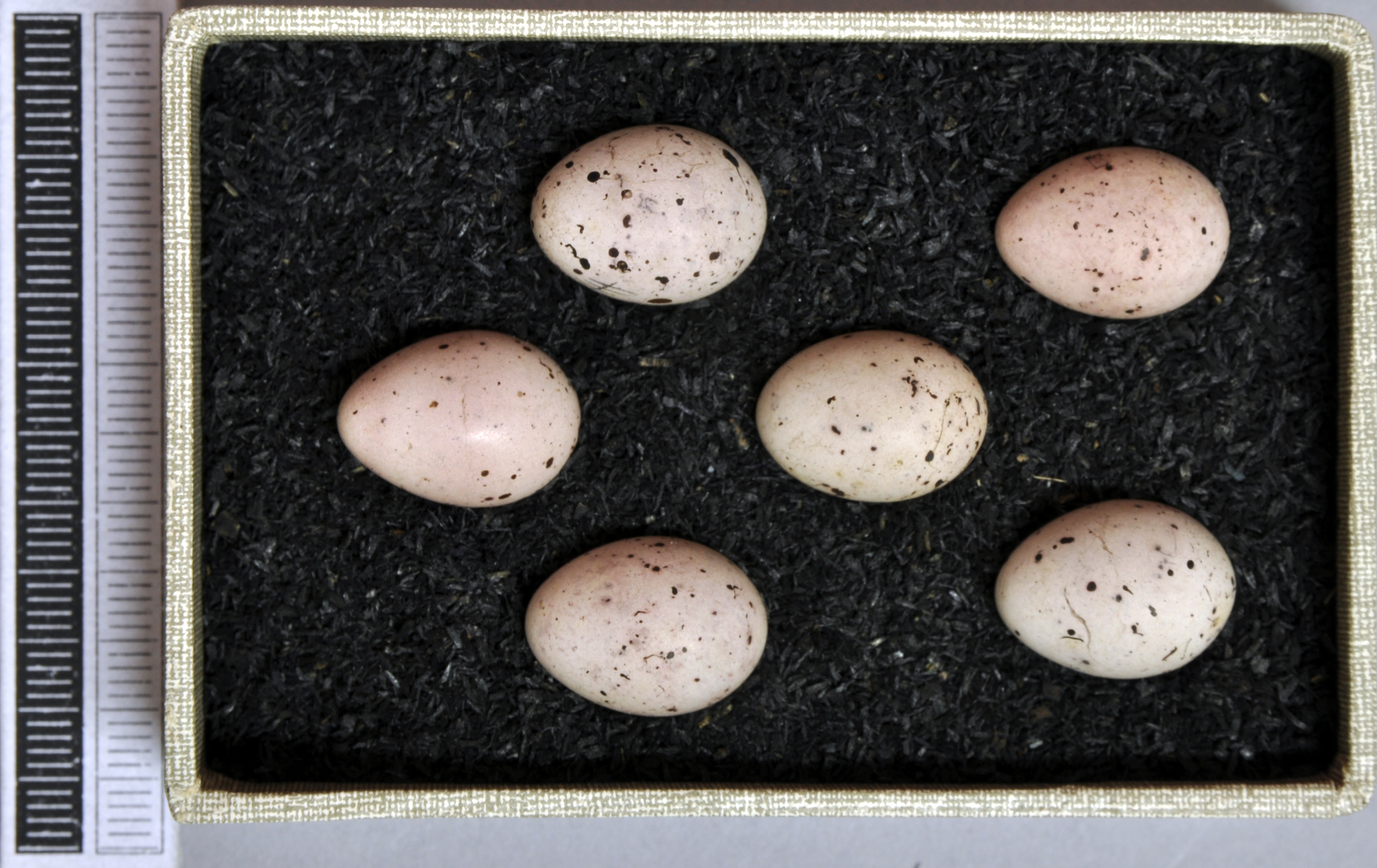 Melodious warbler Hippolais polyglotta , egg, Coll. Museum Wiesbaden